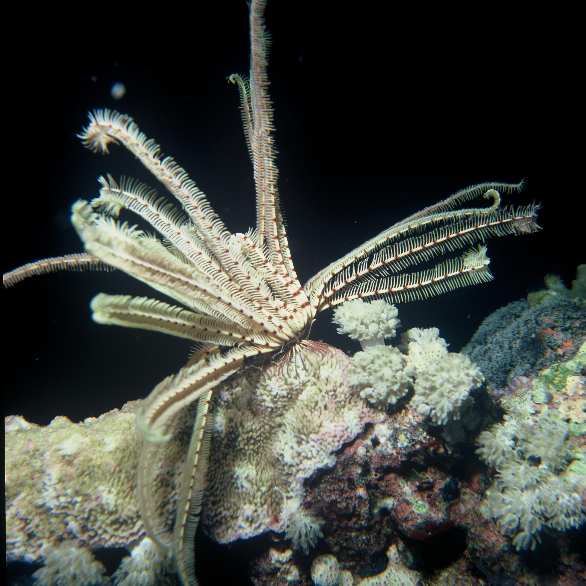 Feather star